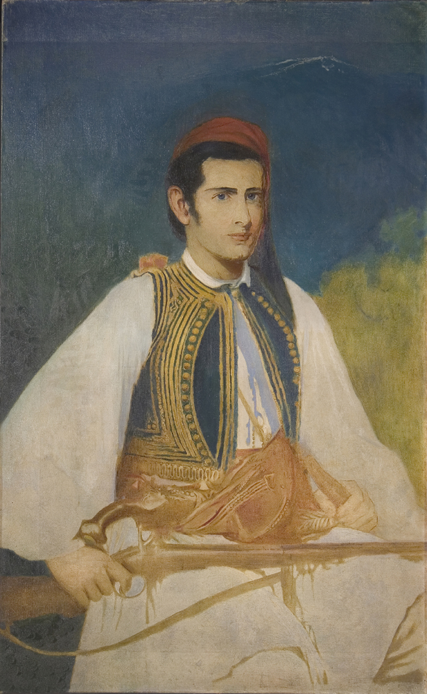 Samuel Gridley Howe (1801-1876) in the dress of a Greek solider Artist: Elliot, John (1876) Portrait Date: 1821-1840 Medium: Oil on canvas